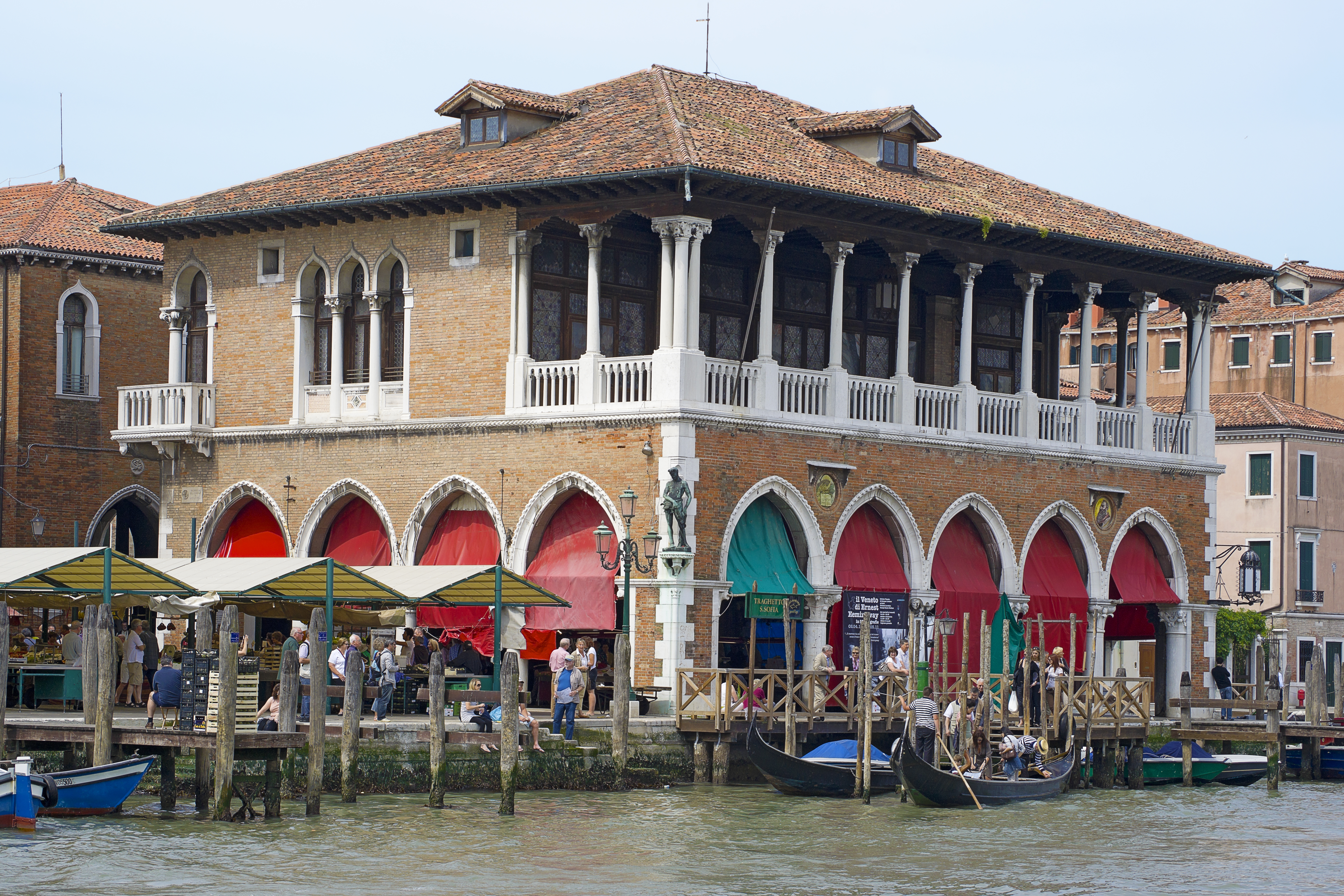 Pescaria (Gothic Revival, 20th century) Venice